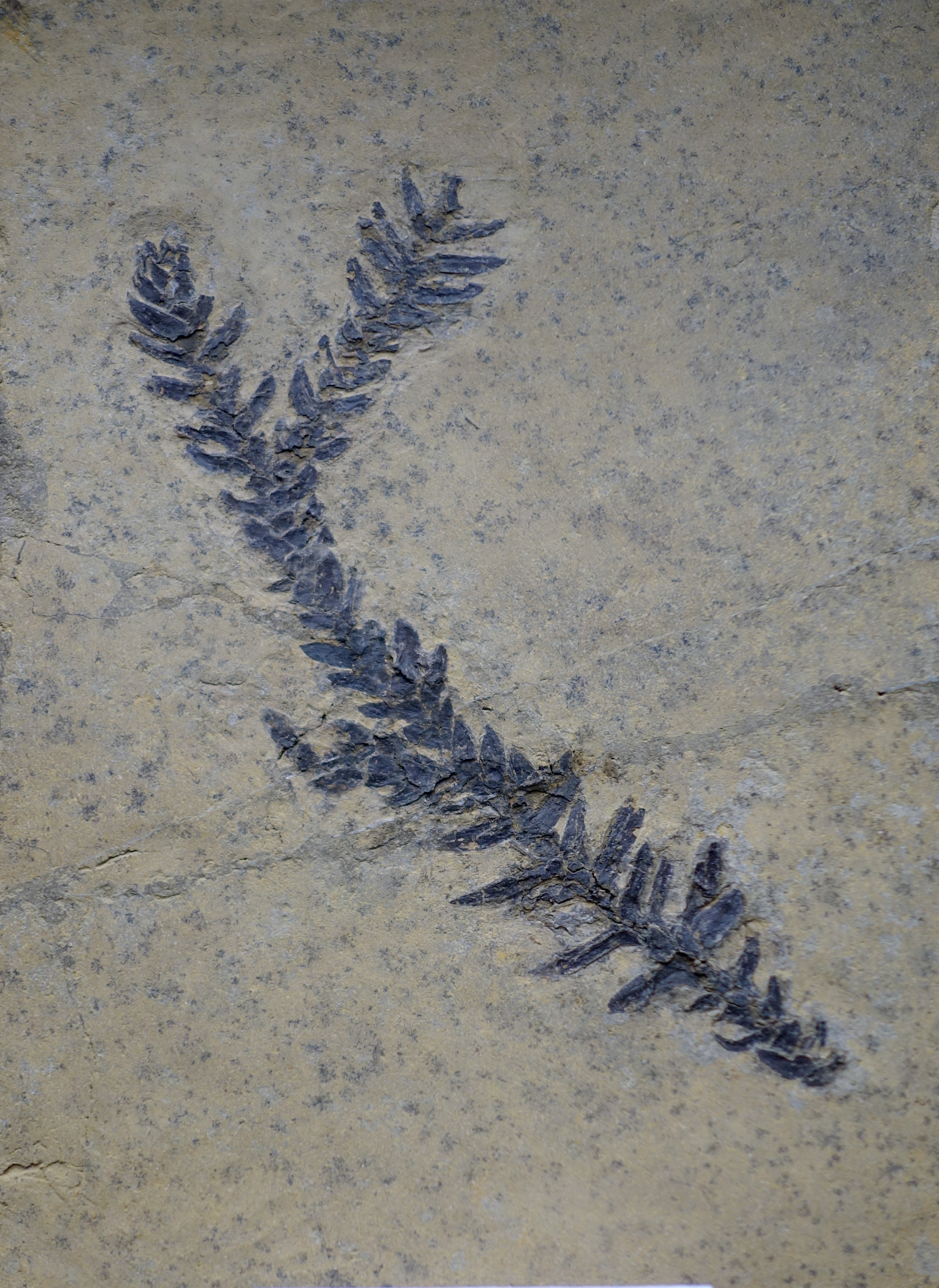 Cropped image of taxon in file name